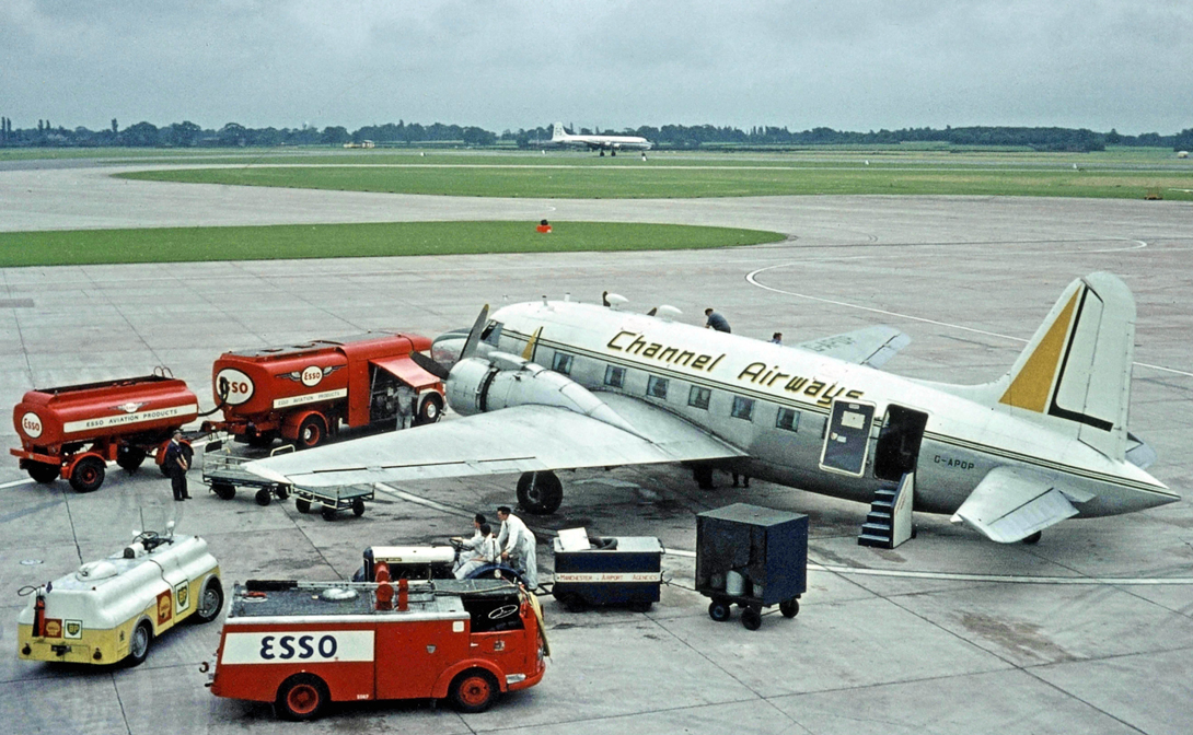 Vickers Viking C.2 G-APOP of Channel Airways at Manchester (Ringway) Airport in 1964